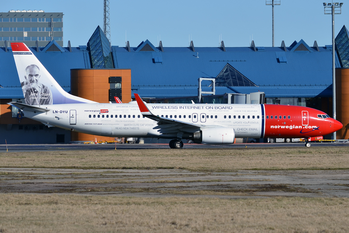 Norwegian Air Shuttle Boeing 737-800 at Tallinn Airport